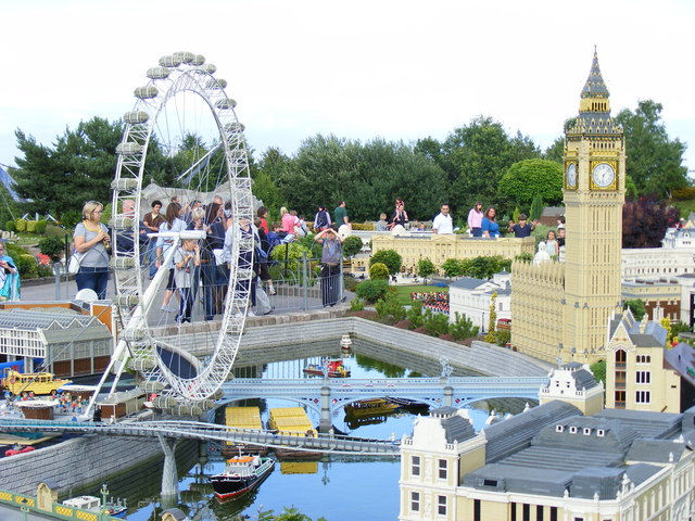 Miniland at Legoland Windsor (Or a scene from the new low budget Dr Who, the one with the giant invaders..?)